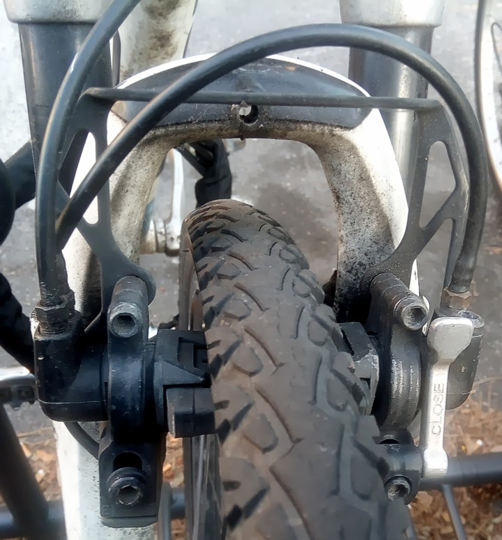 Bicycle brakes with cam drive and linear motion of the brake shoe